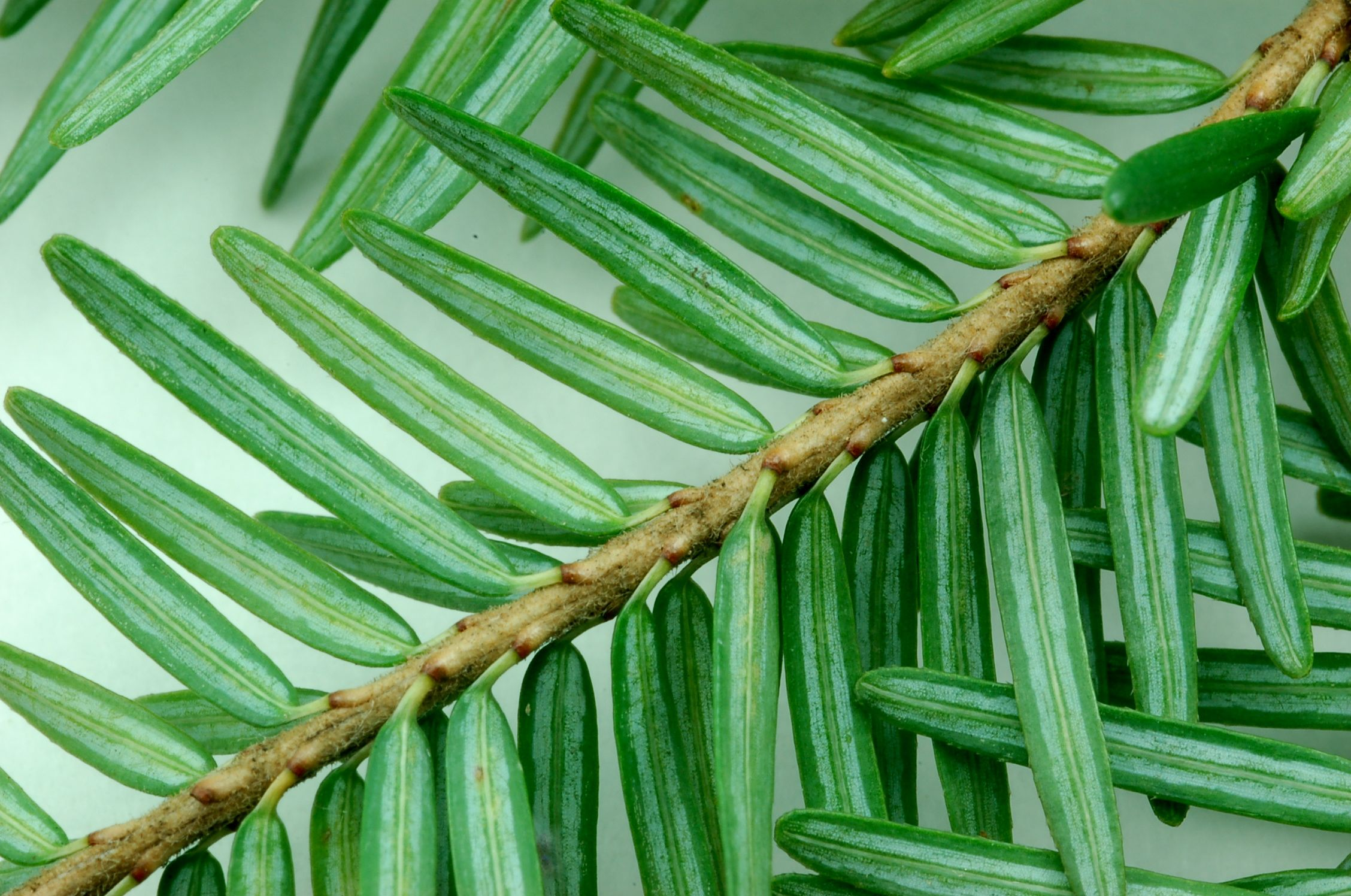 Underside of the needles of the Eastern Hemlock, Tsuga canadensis. Note the two pale white lines.